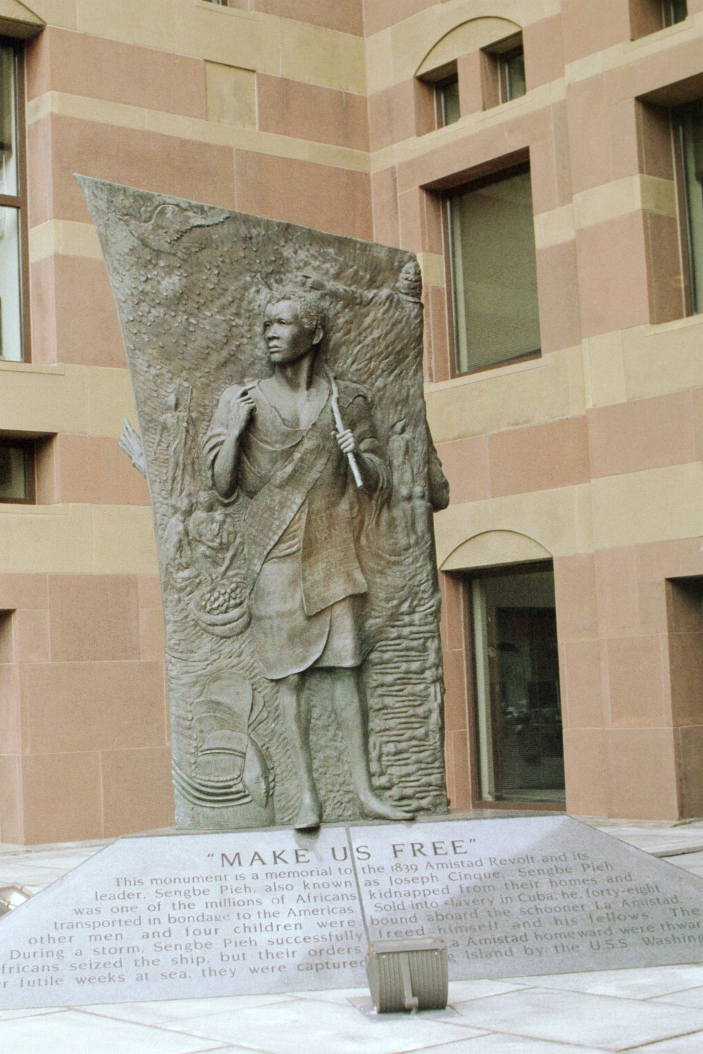 Amistad memorial in downtown New Haven, Connecticut